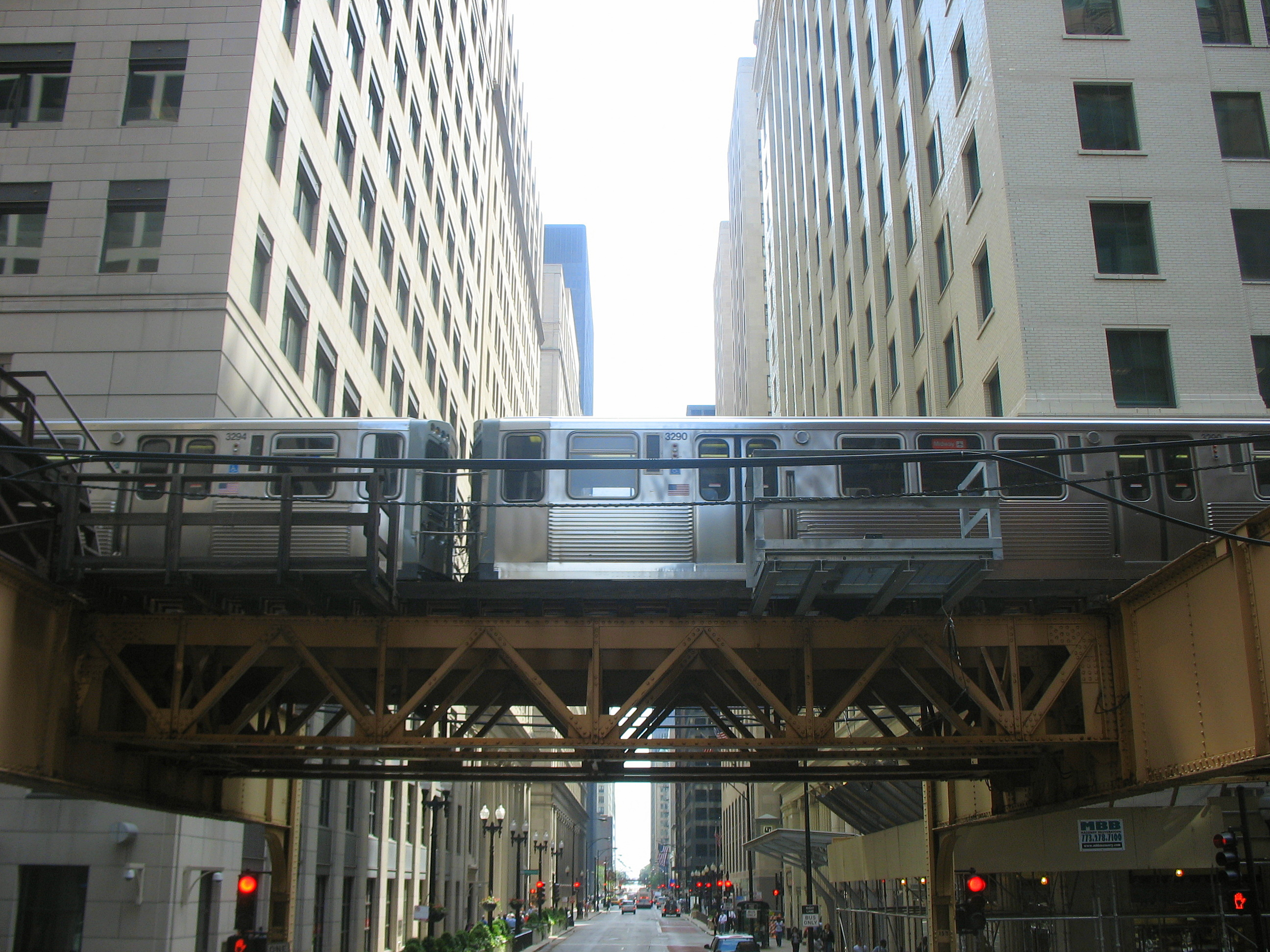 An Orange Line train approaching Quincy in the Loop in downtown Chicago.